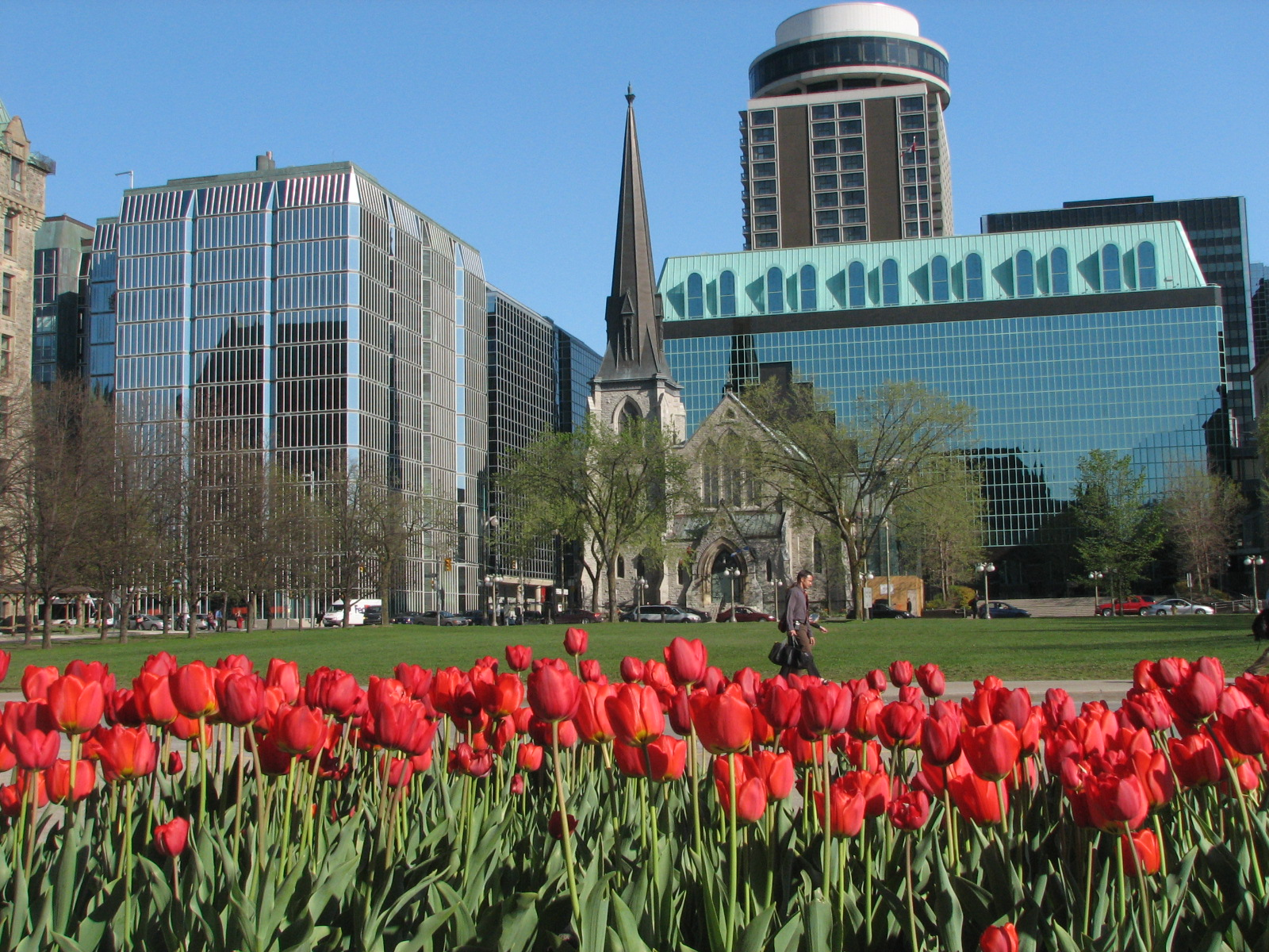 Tulips in downtown Ottawa from the 2006 Tulip Festival